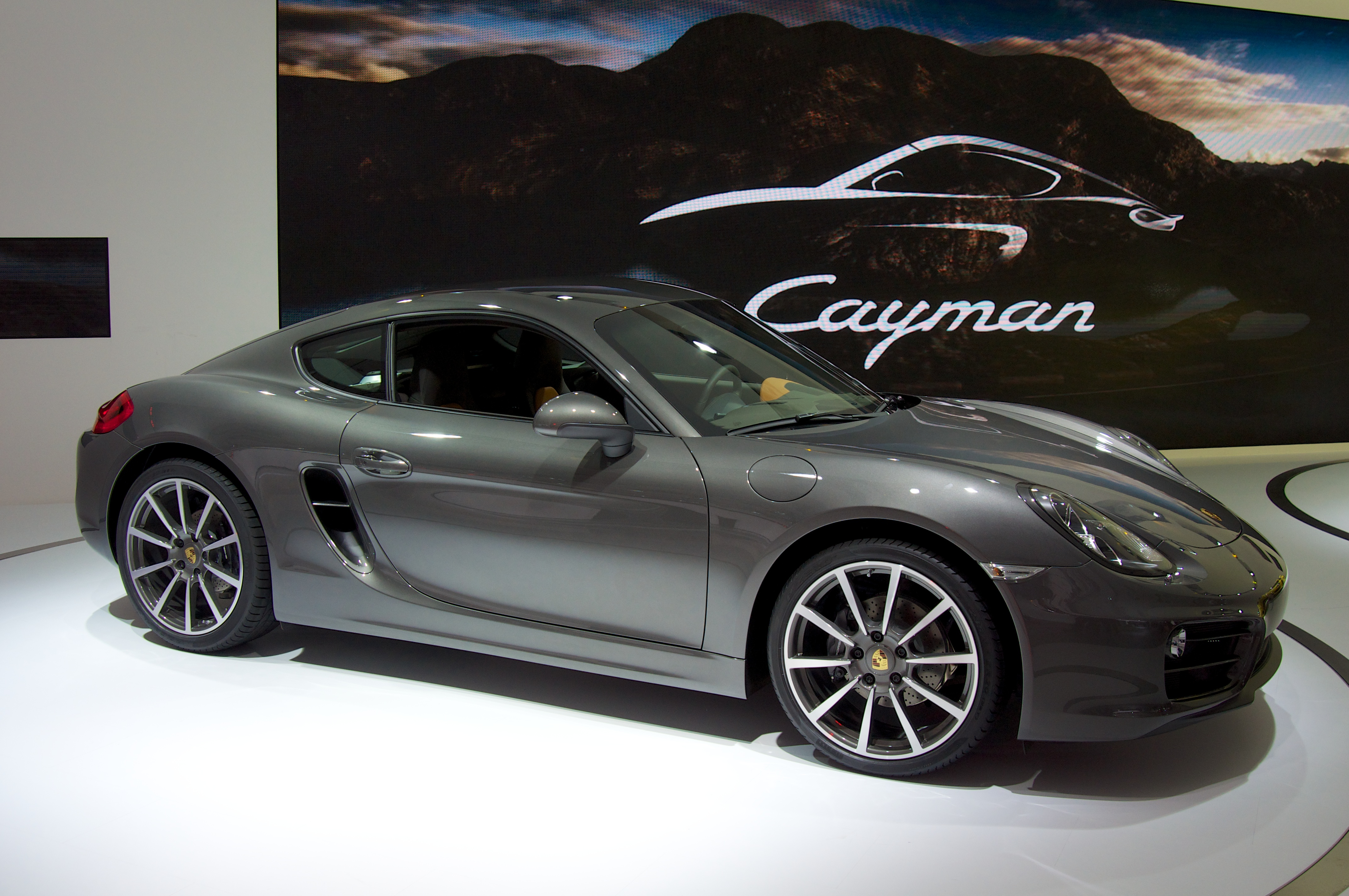 Seen at the 2012 Los Angeles Auto Show. Press day - Wednesday, November 28th. If you use one of my photos, please be so kind as to attribute me and link back to the photo's page. THANK YOU!